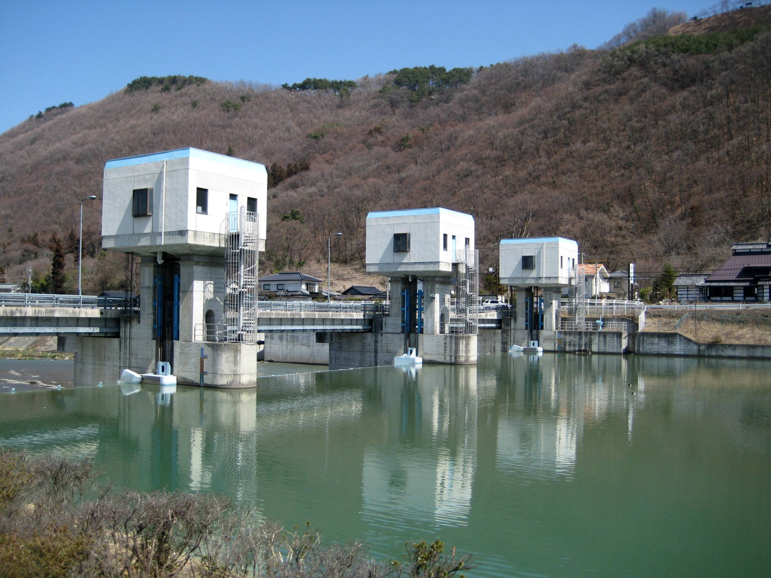 The weir of Jikkasegi.